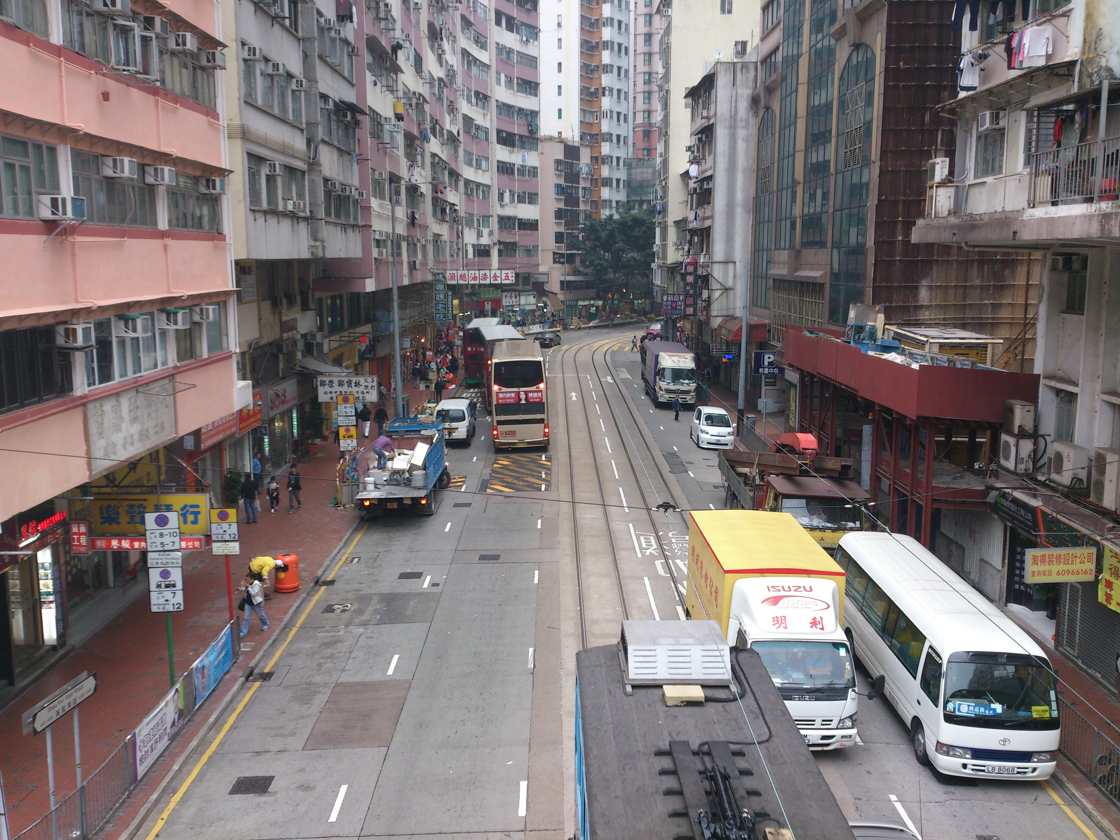 Shau Kei Wan Road towards Nam On Lane